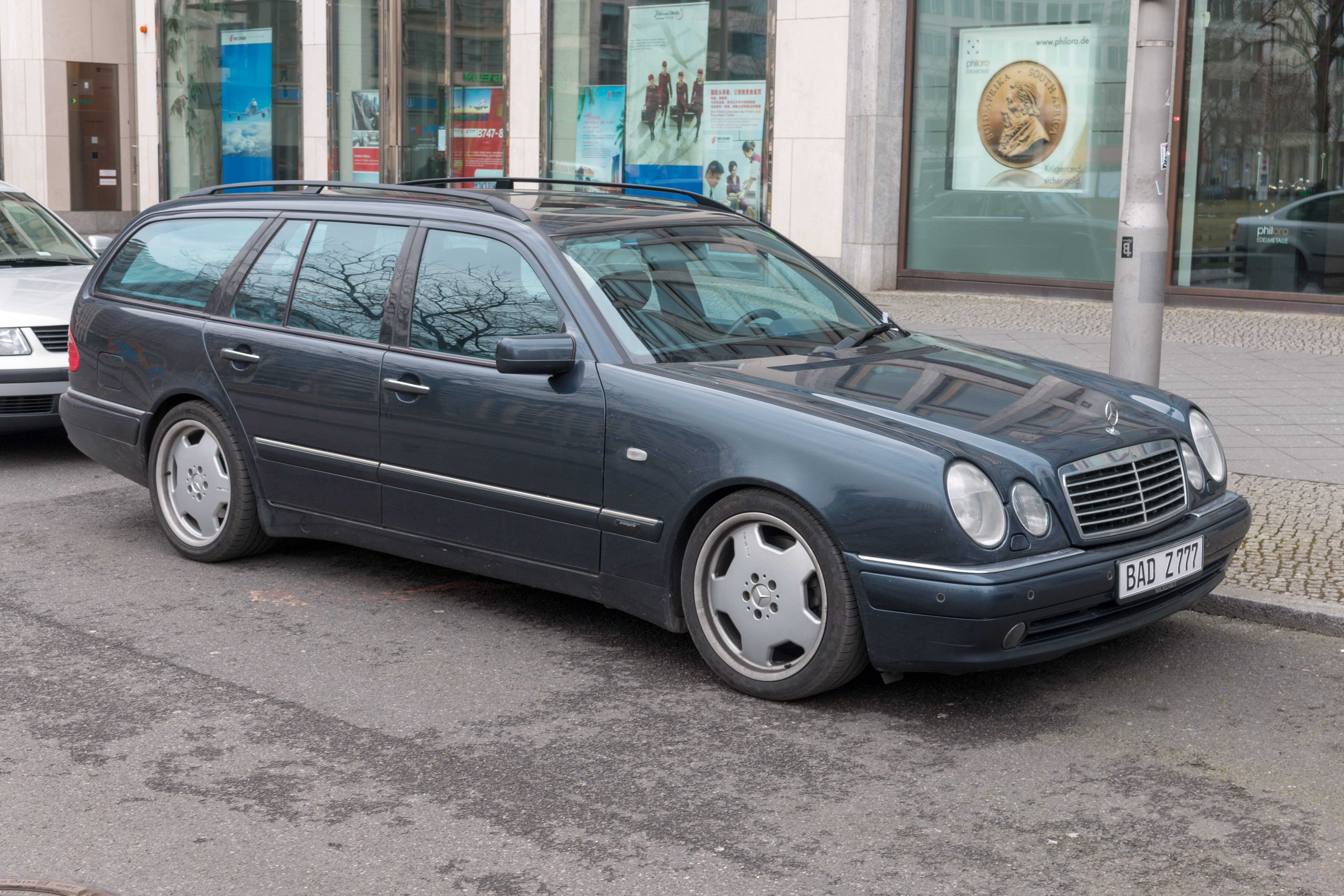 Mercedes-Benz E 55 AMG T